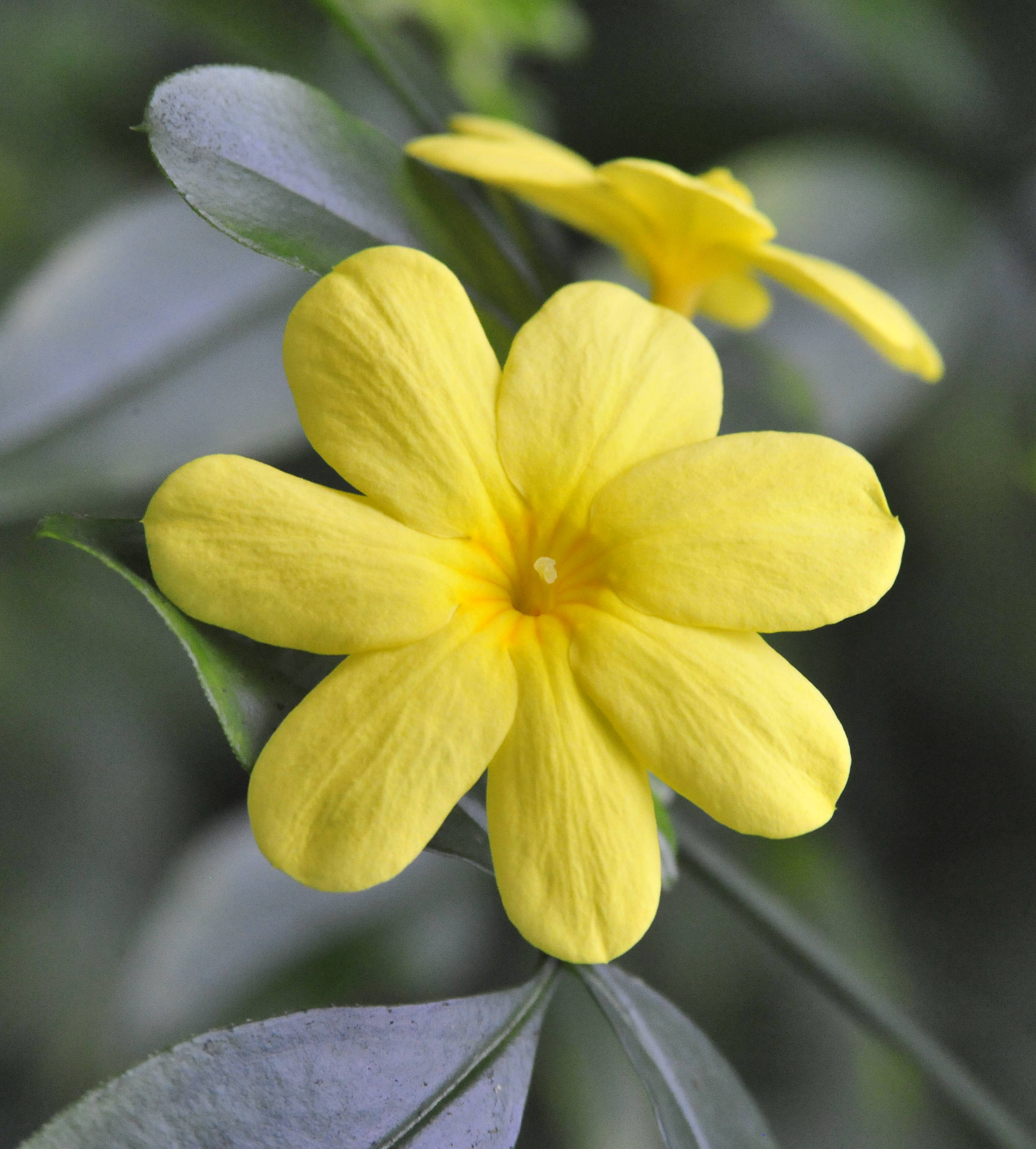 Jasminum mesnyi, Planten un Blomen, greenhouse, Hamburg, January 2010